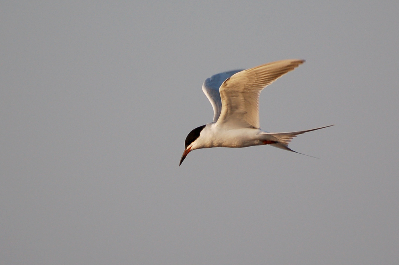 Adult breeding in Minnesota